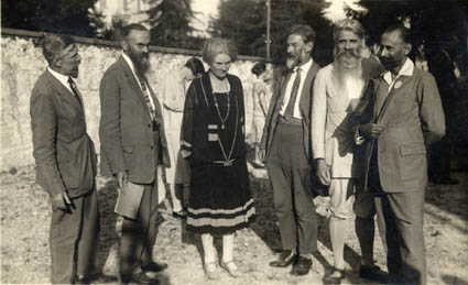 Beatrice Ensor with, left to right, Ovide Decroly, Pierre Bovet, Edouard Claparède, Paul Geheeb and Adolphe Ferrière at an New Education Fellowship Conference.